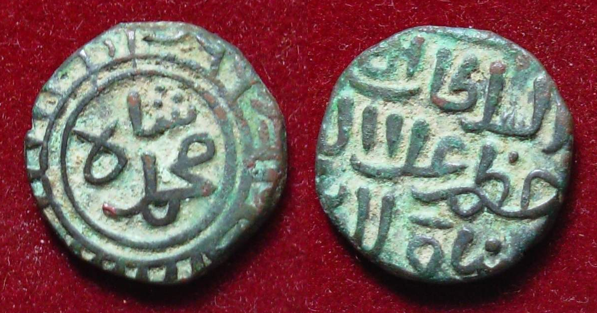 image from personal collection